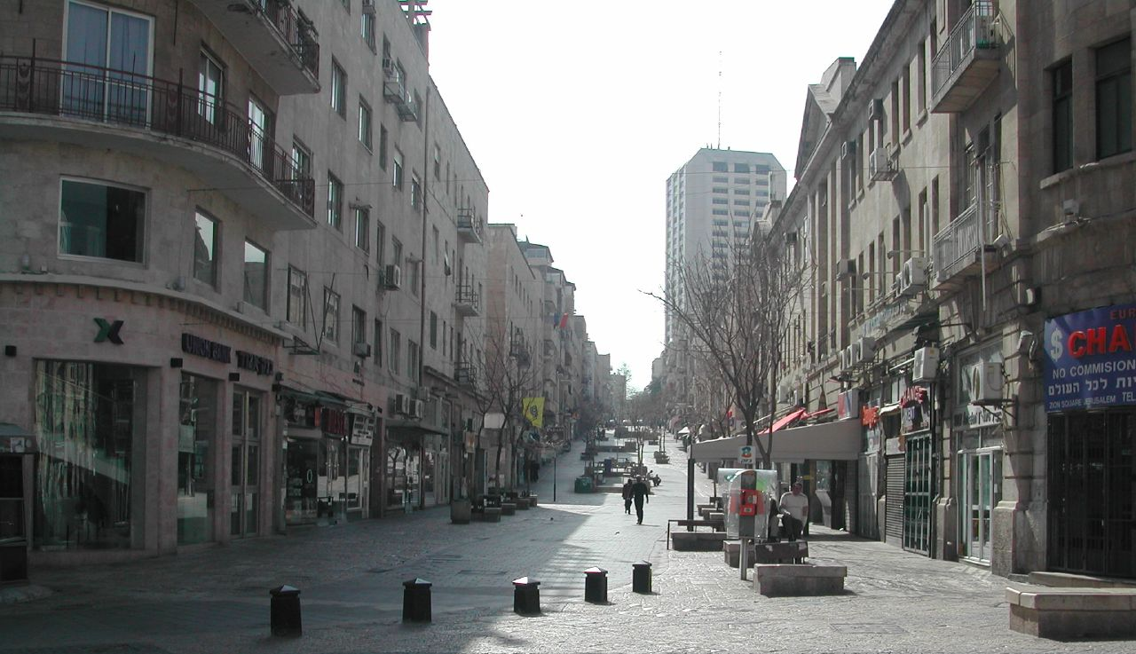 Not that many people here as you can see, but later at night it's packed with everyone from Lubavitchers to drunk americans.